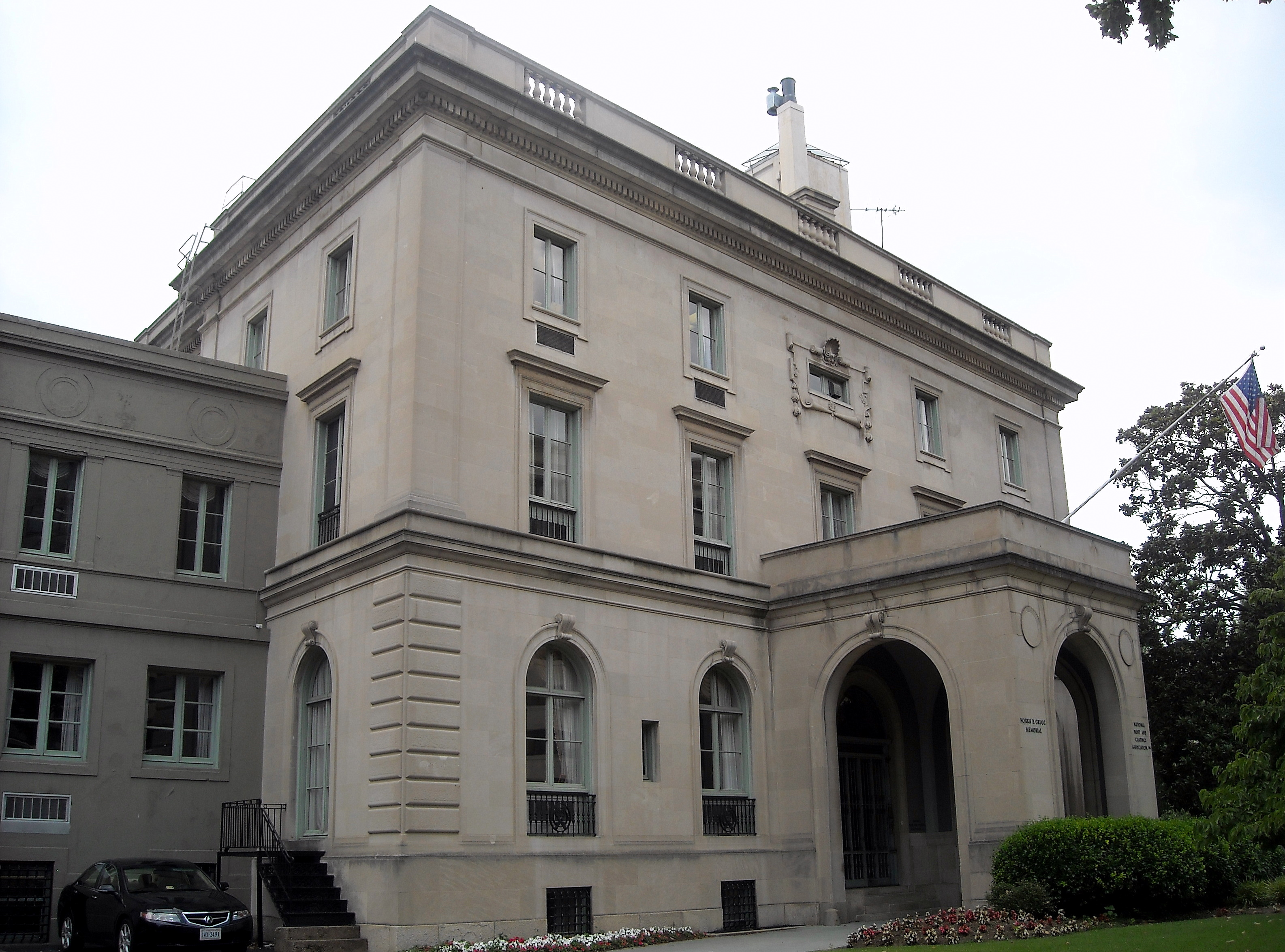 The Brodhead-Bell-Morton Mansion (also known as the Levi P. Morton House) located at 1500 Rhode Island Avenue, N.W., in the Logan Circle neighborhood of Washington, D.C. Built in 1879 to the designs of architect John Fraser, (renovated in 1912 by architect John Russell Pope) the Beaux-Arts style building originally served as the private residence of John. T. and Jessie Willis Brodhead. Since 1939, the building has served as offices for the National Paint, Varnish, and Lacquer Association (now known as the National Paint and Coatings Association). Former occupants include Alexander Graham Bell and his wife Mabel Gardiner Hubbard, U.S. Vice President Levi P. Morton, the Embassy of Russia, and U.S. Secretary of State Elihu Root. The building is listed on the National Register of Historic Places and the District of Columbia Inventory of Historic Sites.